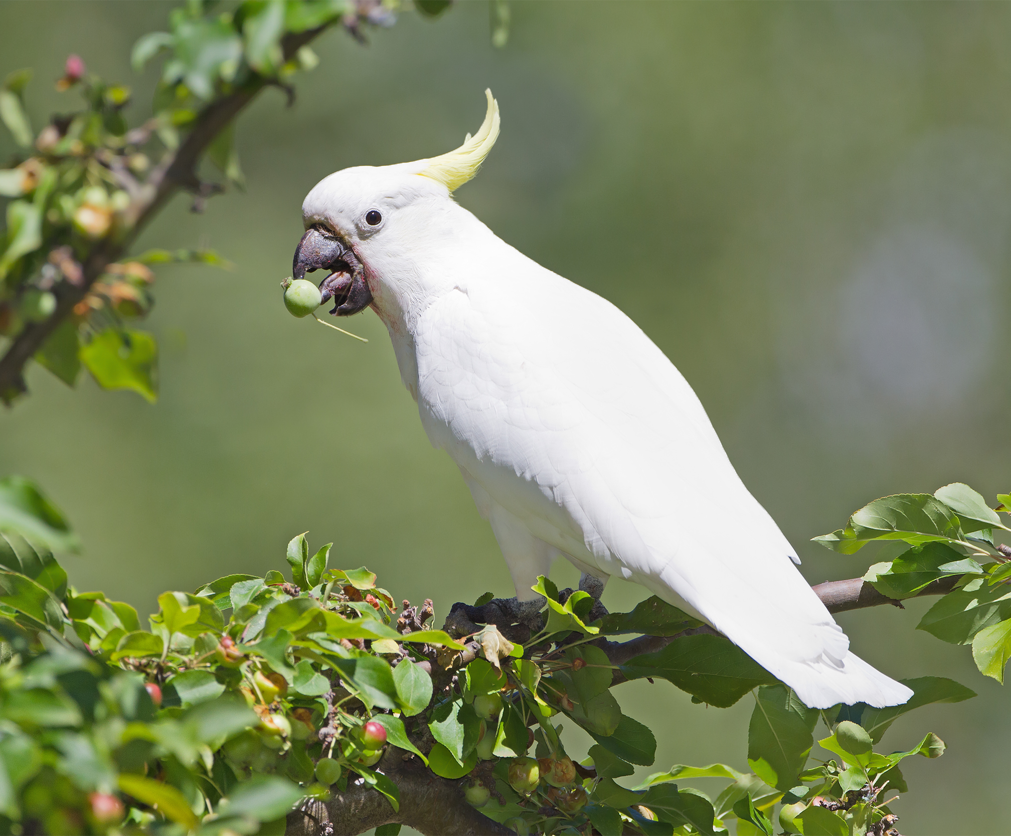 Sulphur-crested Cockatoo (Cacatua galerita), Austin's Ferry, Tasmania, Australia